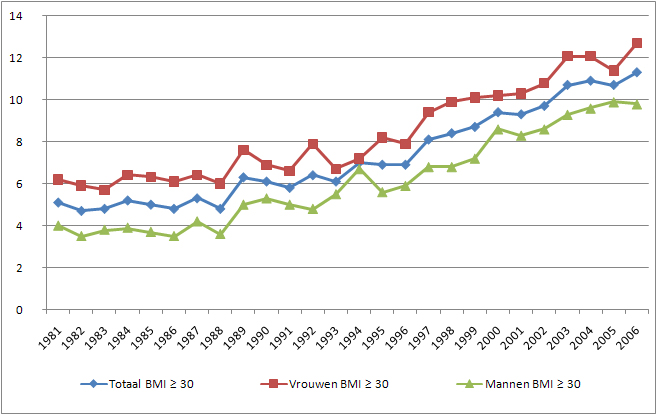 Obesity in the Netherlands from 1981-2006 amongst adults 20+